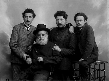 David Shimoni, J. Ch. Brenner, Alexander Siskind Rabinovitz, S. Y. Agnon